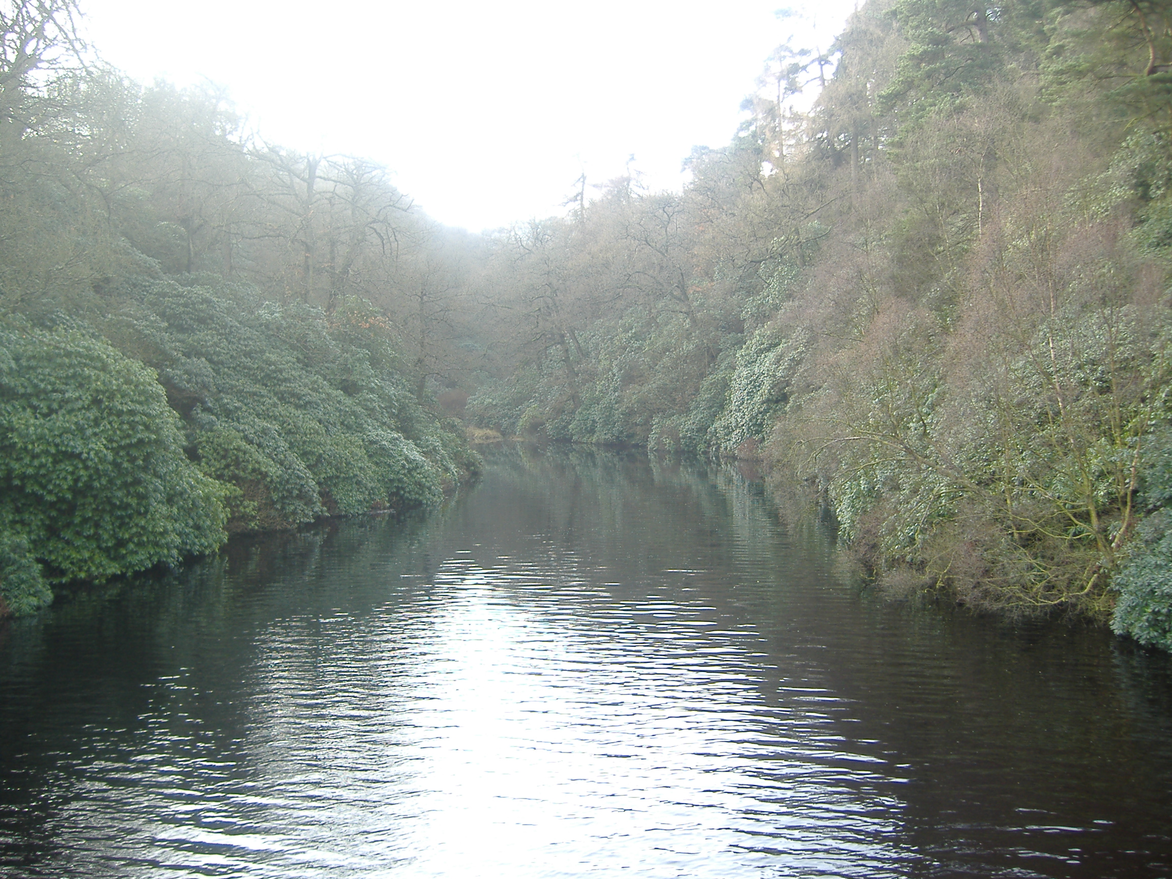 Took It Myself, Of Kettleshulme river.